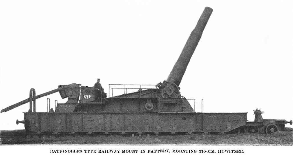 Photograph of French 370-mm howitzer on Batignolles railway mounting, at high angle of elevation.